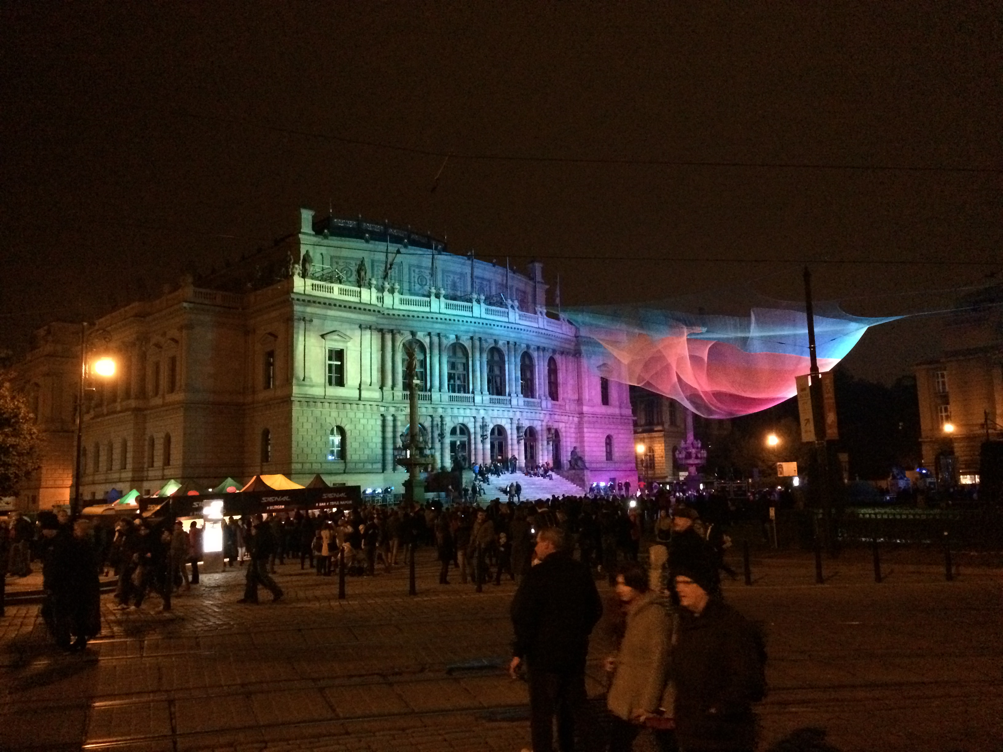 Art installation called 1.26 by the American artist Janet Echelman placed in front of Rudolfinum during the third edition of the festival of light Signal.